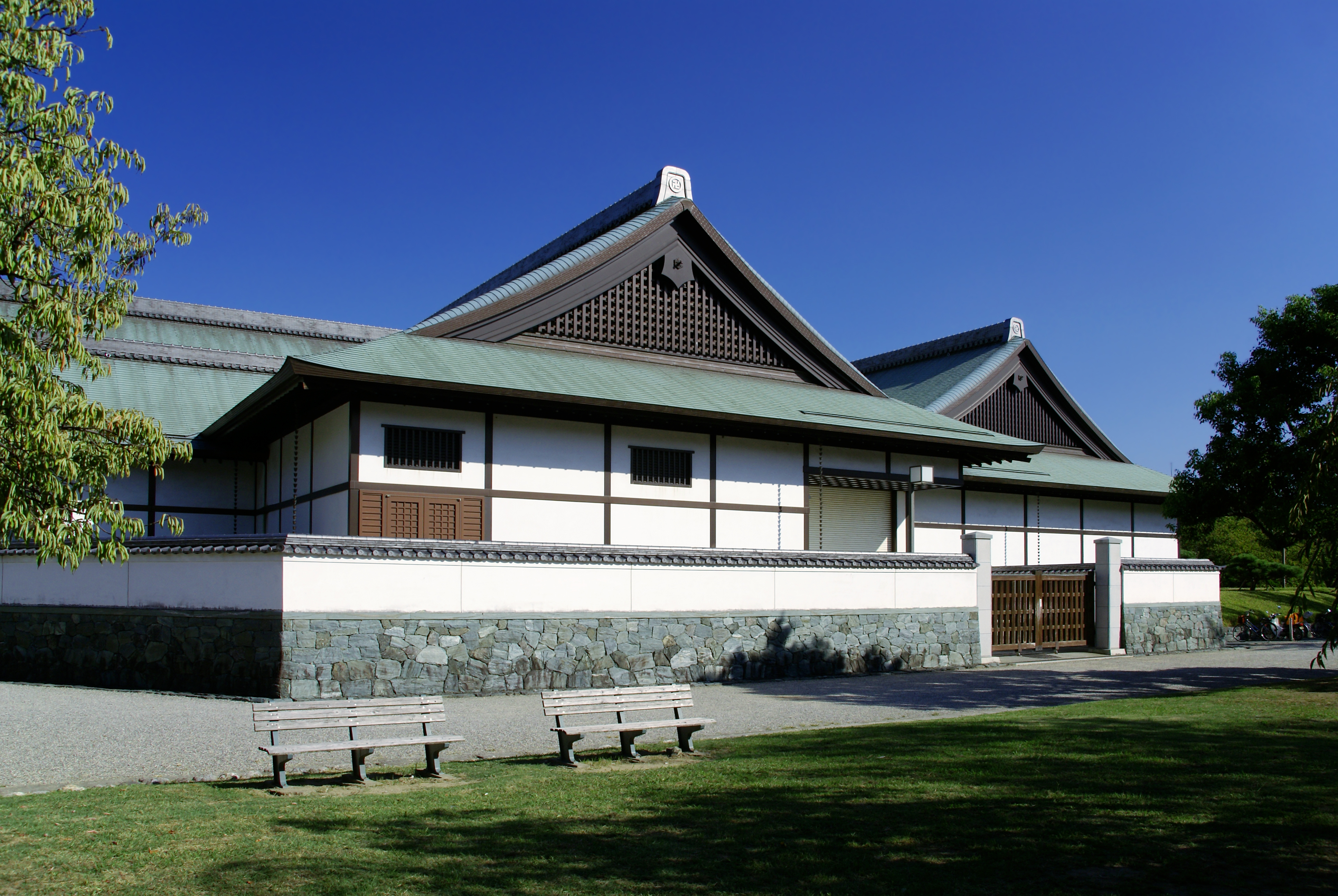 Tokushima Municipal Tokushima Castle Museum in Tokushima, Tokushima prefecture, Japan